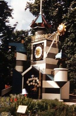 Author: Pete G. The Guinness Festival Clock in Battersea Park (1953) from a Kodachrome original